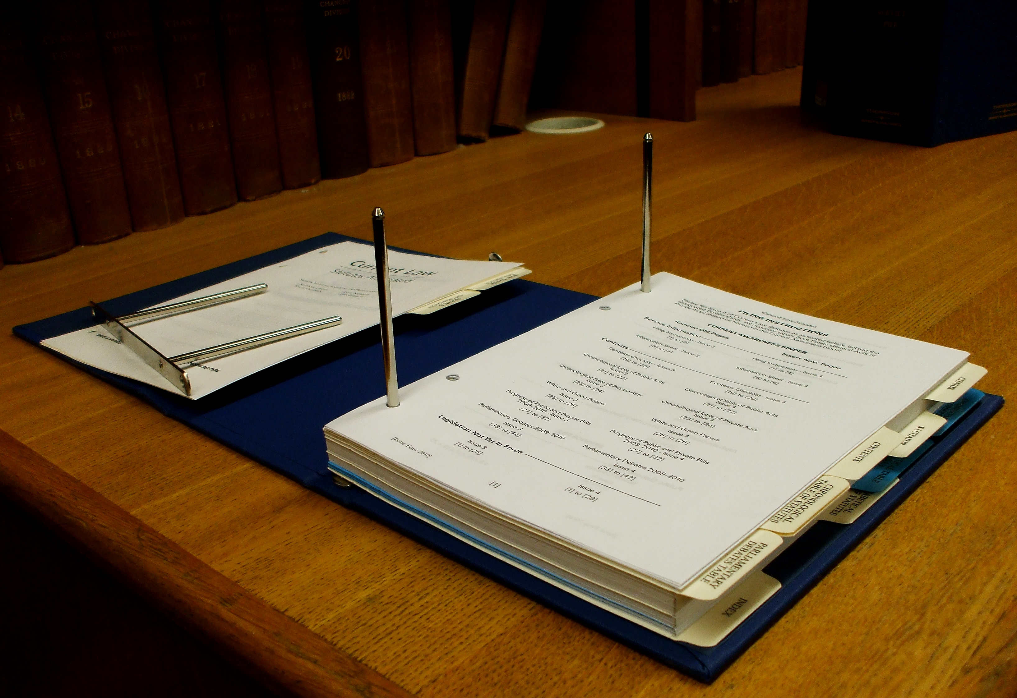 A looseleaf binder for a continuing legal publication.